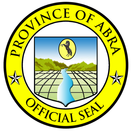 Provincial seal of Abra, Philippines